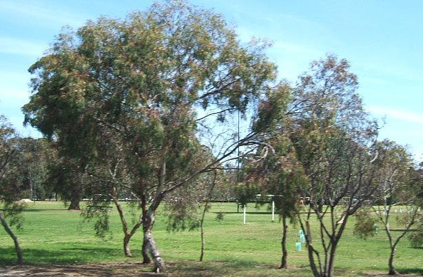 South Parklands, Adelaide, South Australia